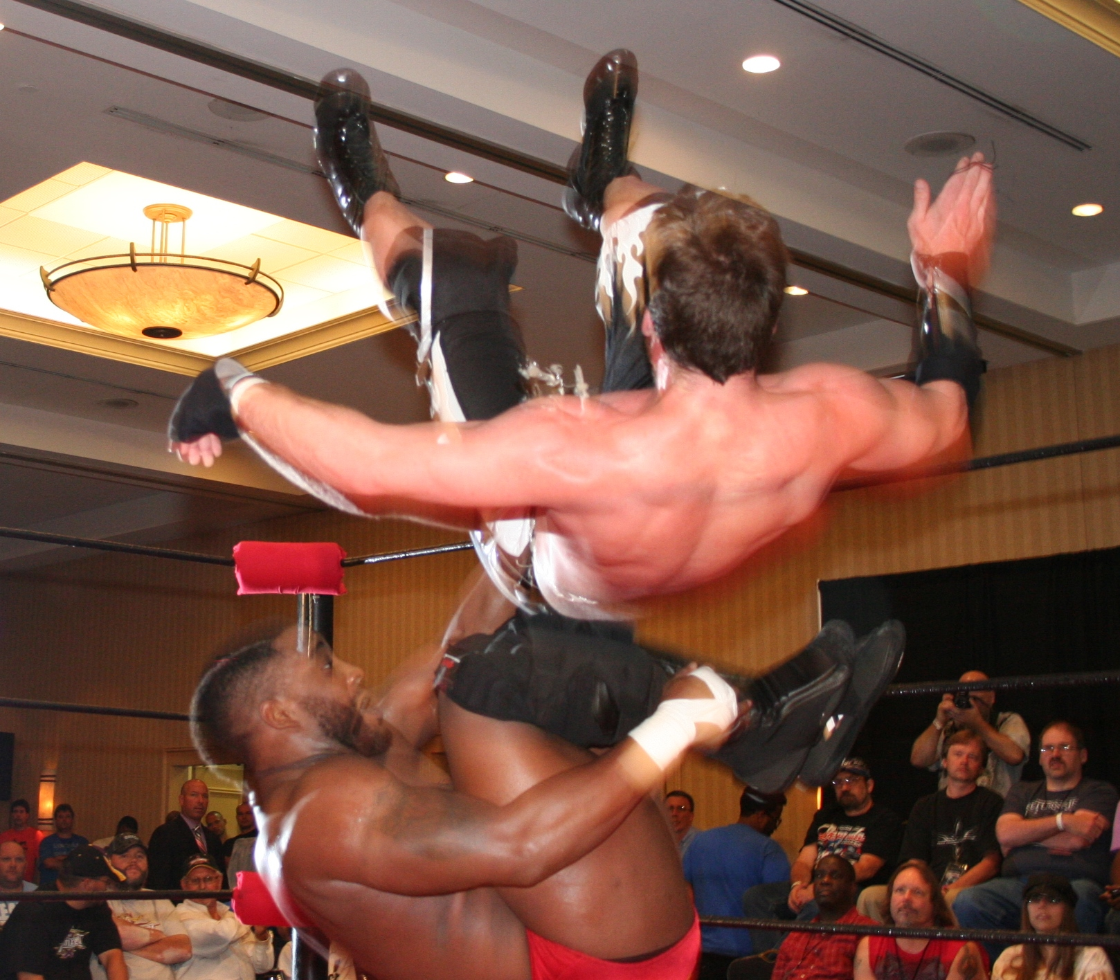 Cedric Alexander performing his "Lumbar Check" (double knee backbreaker) on Chris Sabin